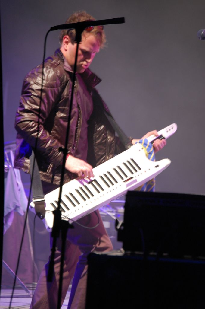 Sean T. Drinkwater of Boston based synthpop band Freezepop plays his keytar during their headlining performance at the Penny Arcade Expo 2009 (PAX 09).